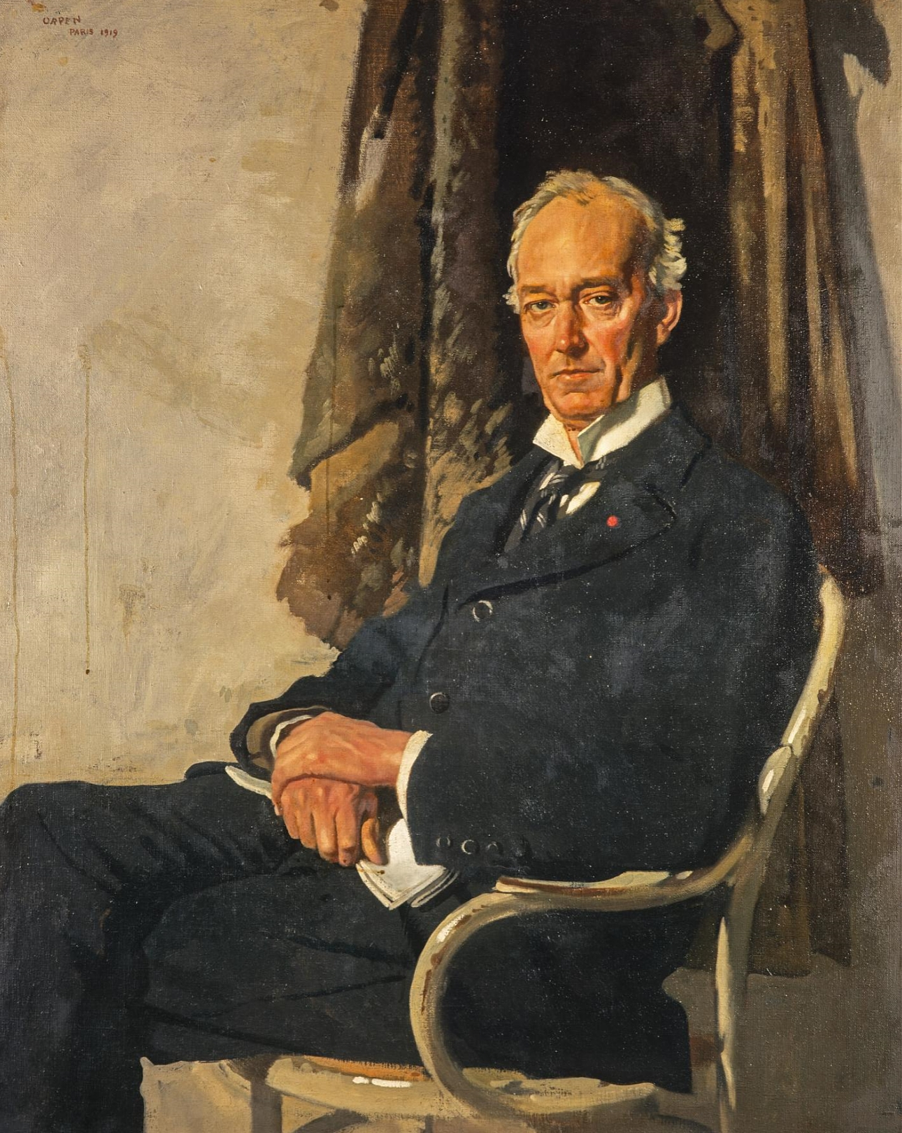 George Allardice, 1st Baron Riddell of Walton Heath, 1865–1934. Newspaper prorietor and diarist